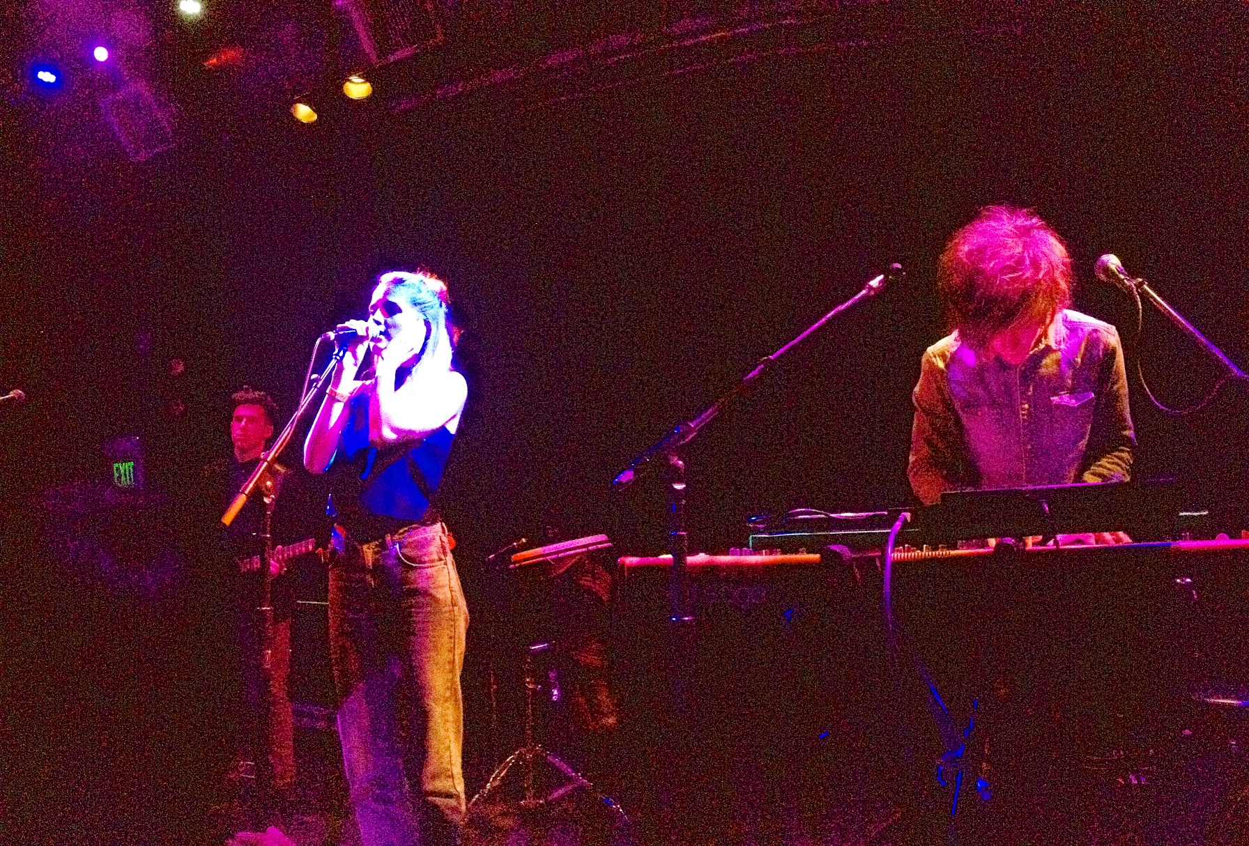 London Grammar performing at Rickshaw Stop, San Francisco, September 2013